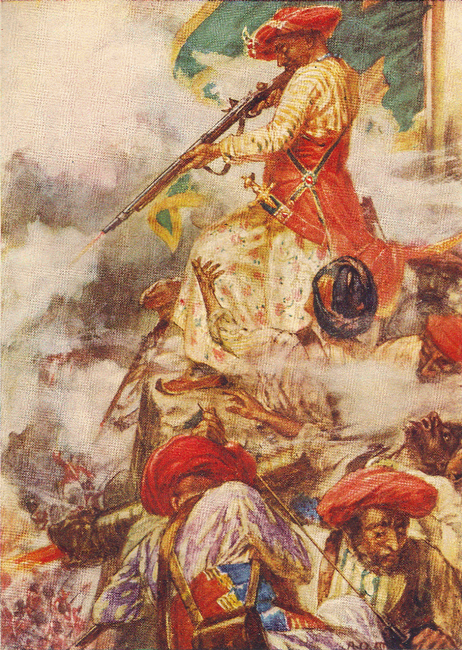 Depiction of Tipu Sultan at the 1799 Siege of Seringapatam. Caption reads: Tippoo himself stood firing coolly at his advancing foes